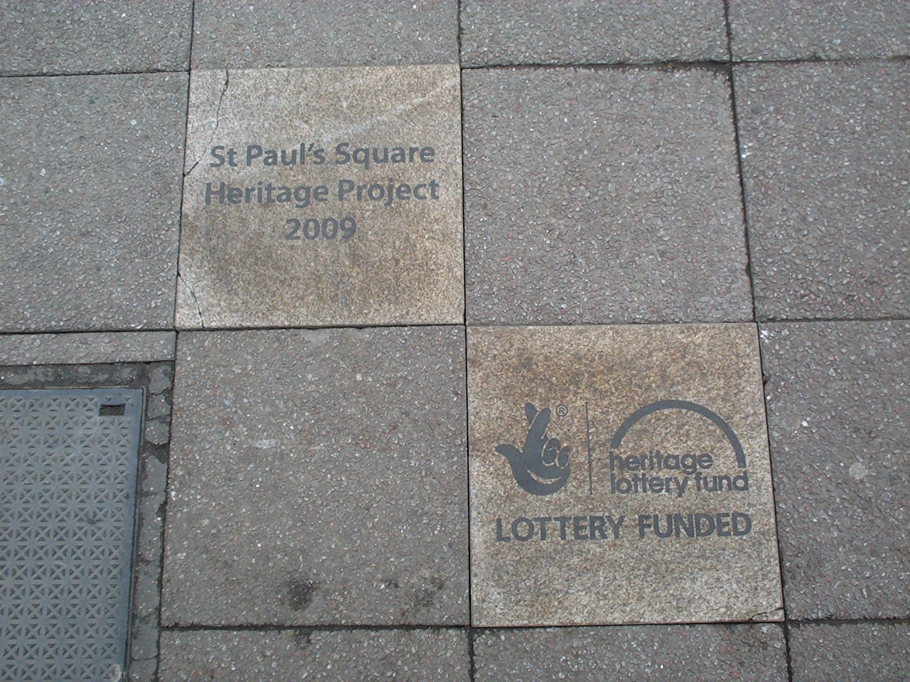 2 plaques set into the pavement in St. Paul's Square, Bedford, recording the fact that the "Heritage project"(mostly the plaques set into the floor) was lottery funded.